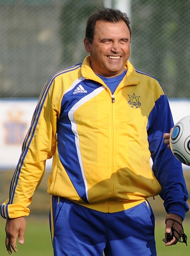 Vadym Yevtushenko